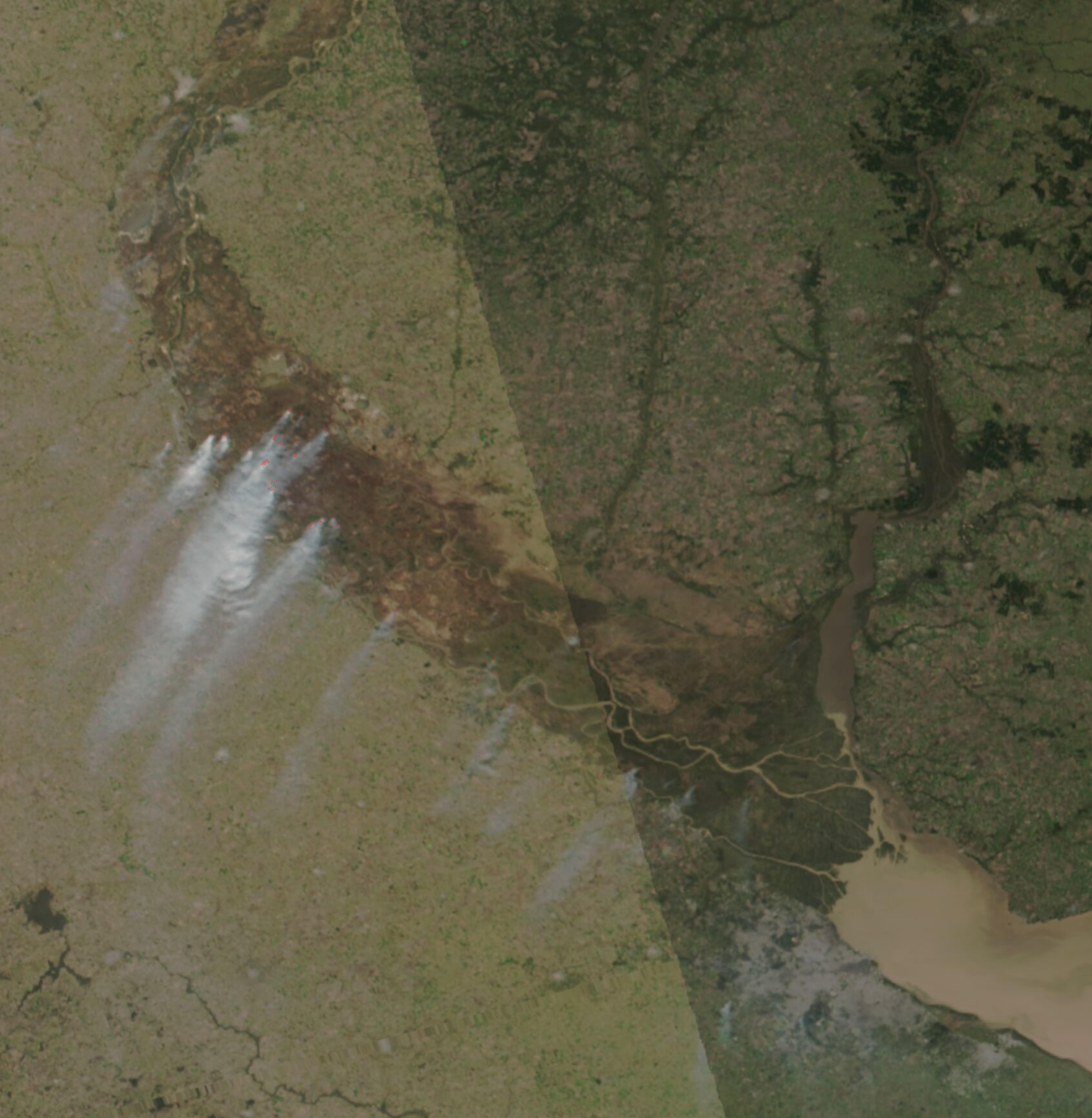 Imagery from NASA Satellite showing MODIS & VIIRS data of 2020 Delta del Paraná wildfires. Highlighted in red are fire detections